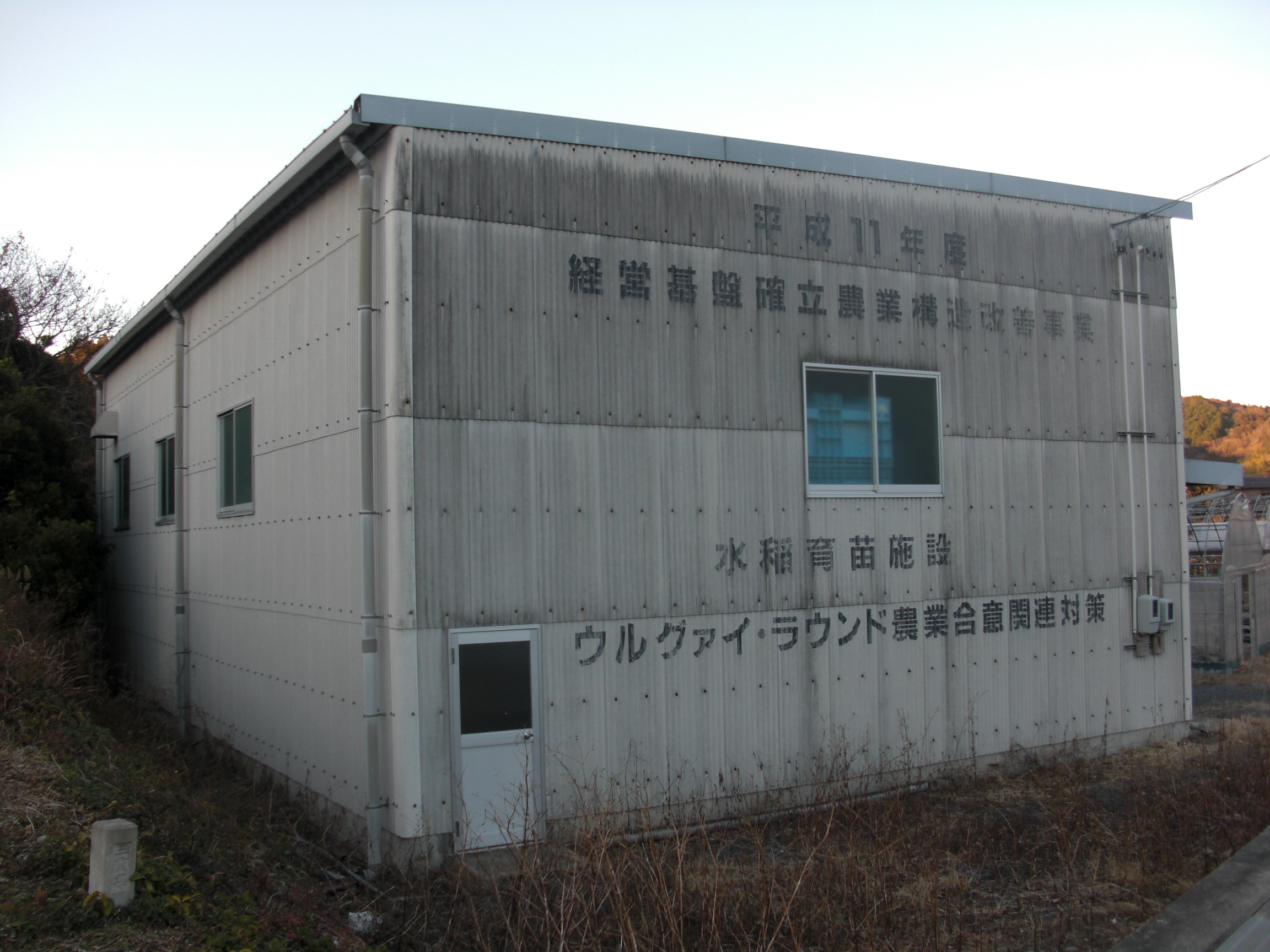 This is the facility which is used for the rice raising. This facility was built by Uruguay Round agreement. This is located in Shima, Mie, Japan.